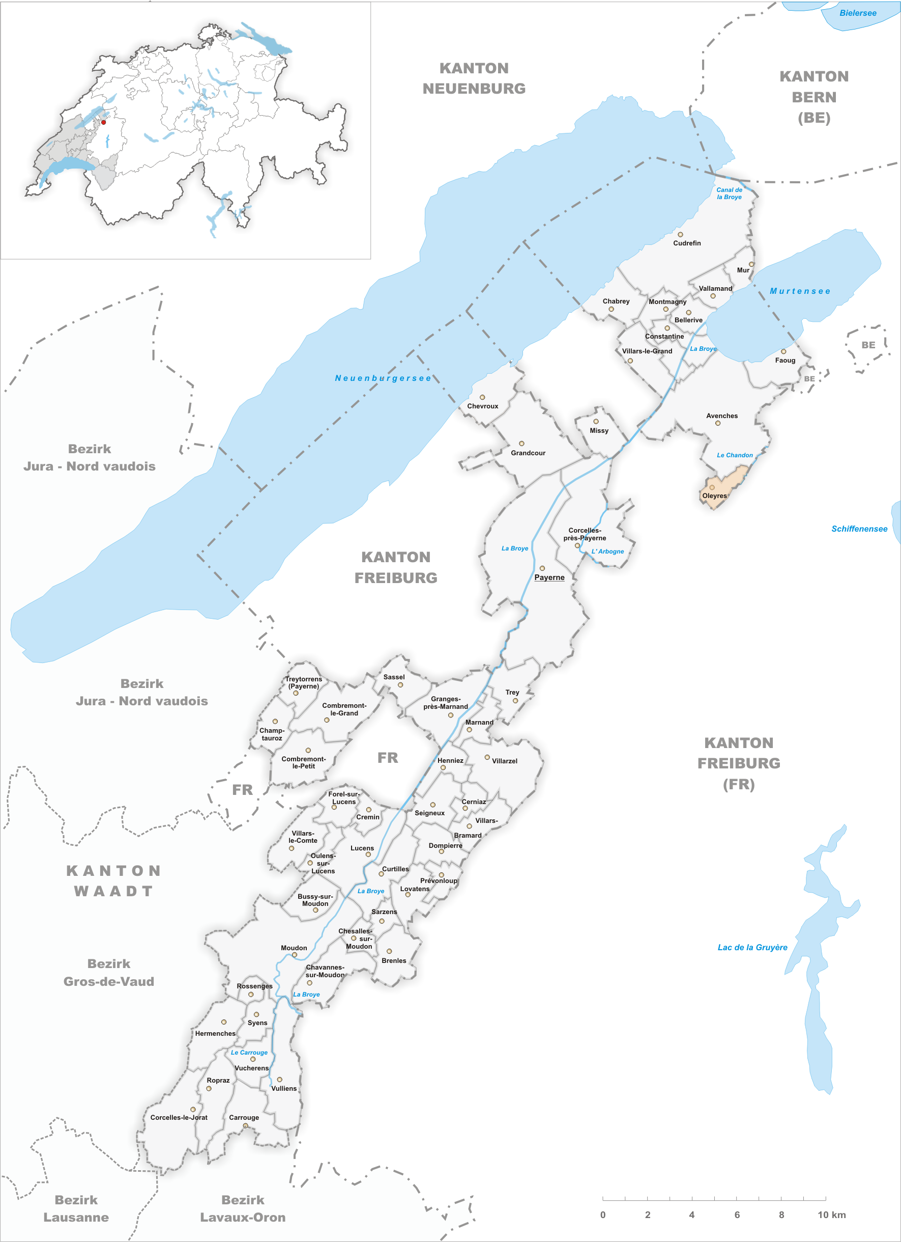 Municipality Oleyres